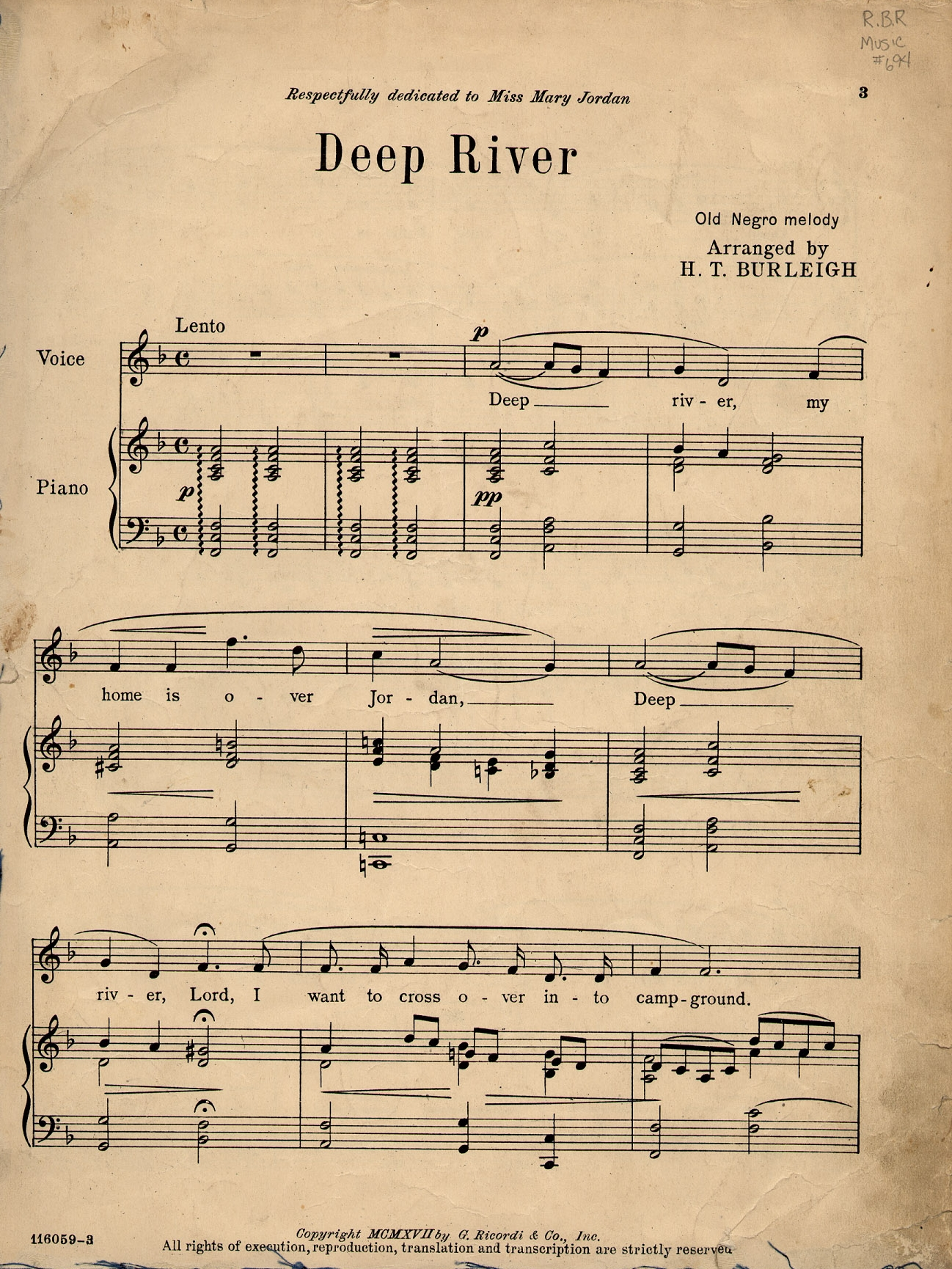 First page of the sheet music for the spiritual "Deep River", published 1917